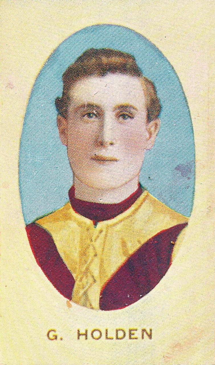 Cigarette card of George Holden from the Sniders & Abrahams 1910 series